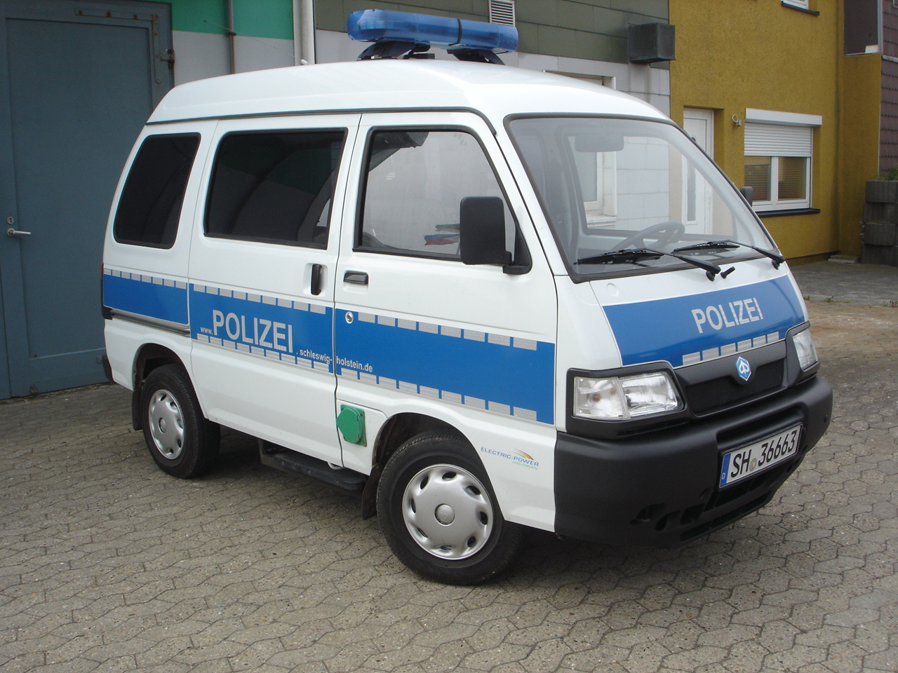 Heligoland, police car (with electric power)